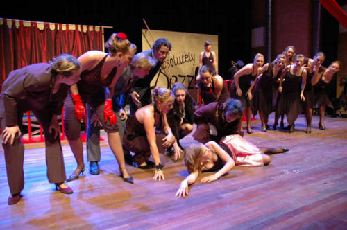 Lustrummusical Unitas S.R. 20-11-2006